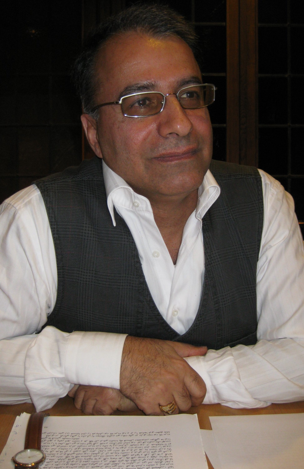 Amir Hassan Cheheltan (* 1956), writer from Iran امیرحسن چهلتن